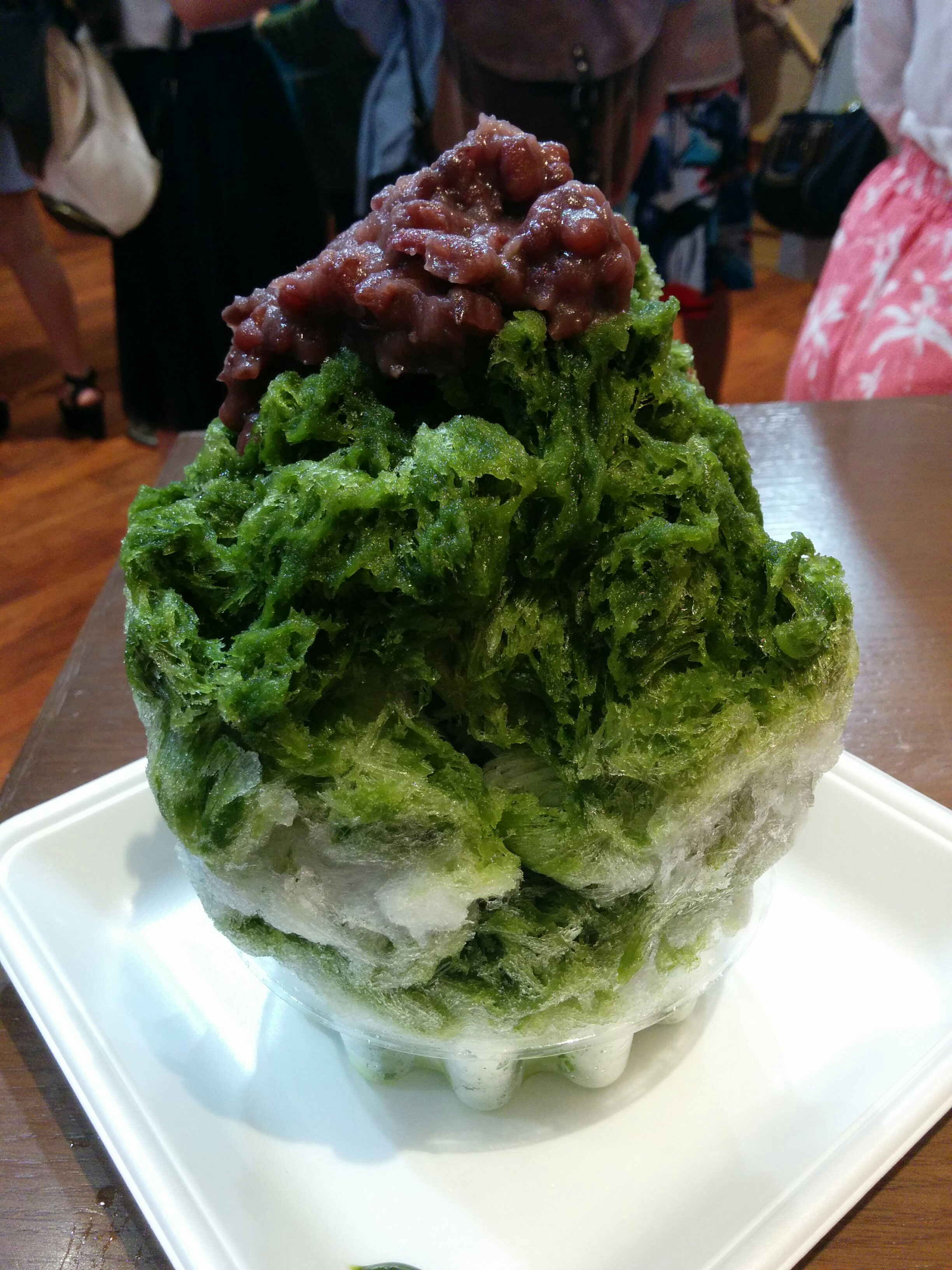 Shaved ice contest in Roppongi Hills